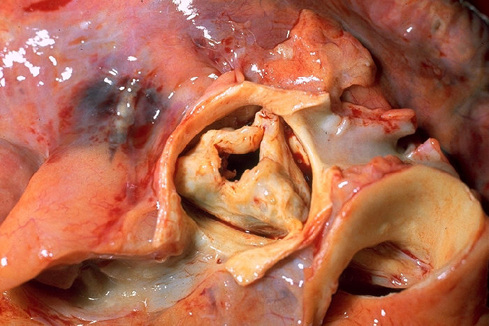 Gross pathology of rheumatic heart disease: aortic stenosis. Aorta has been removed to show thickened, fused aortic valve leaflets and opened coronary arteries from above. Autopsy.